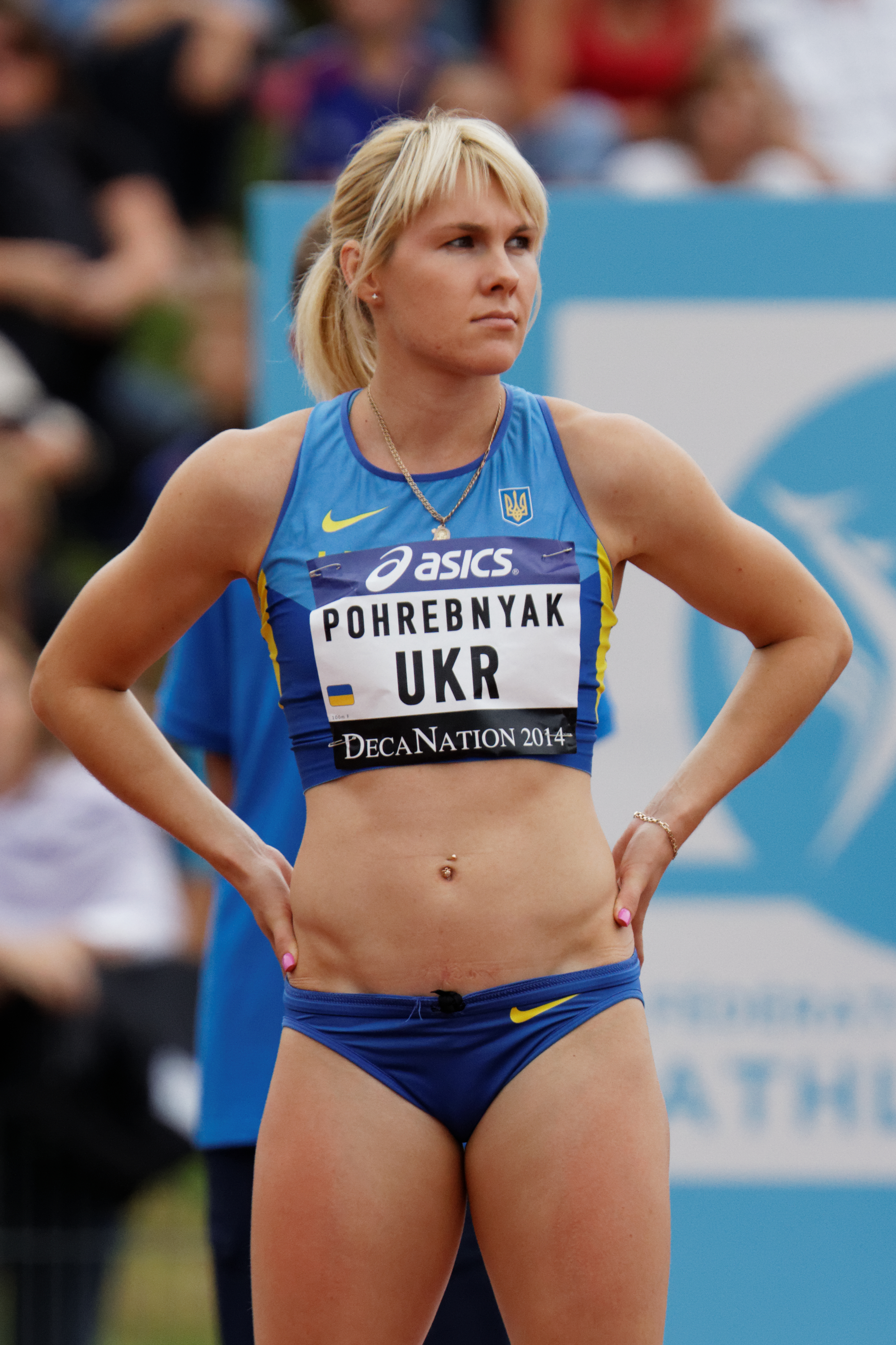 DécaNation 2014. 100m.